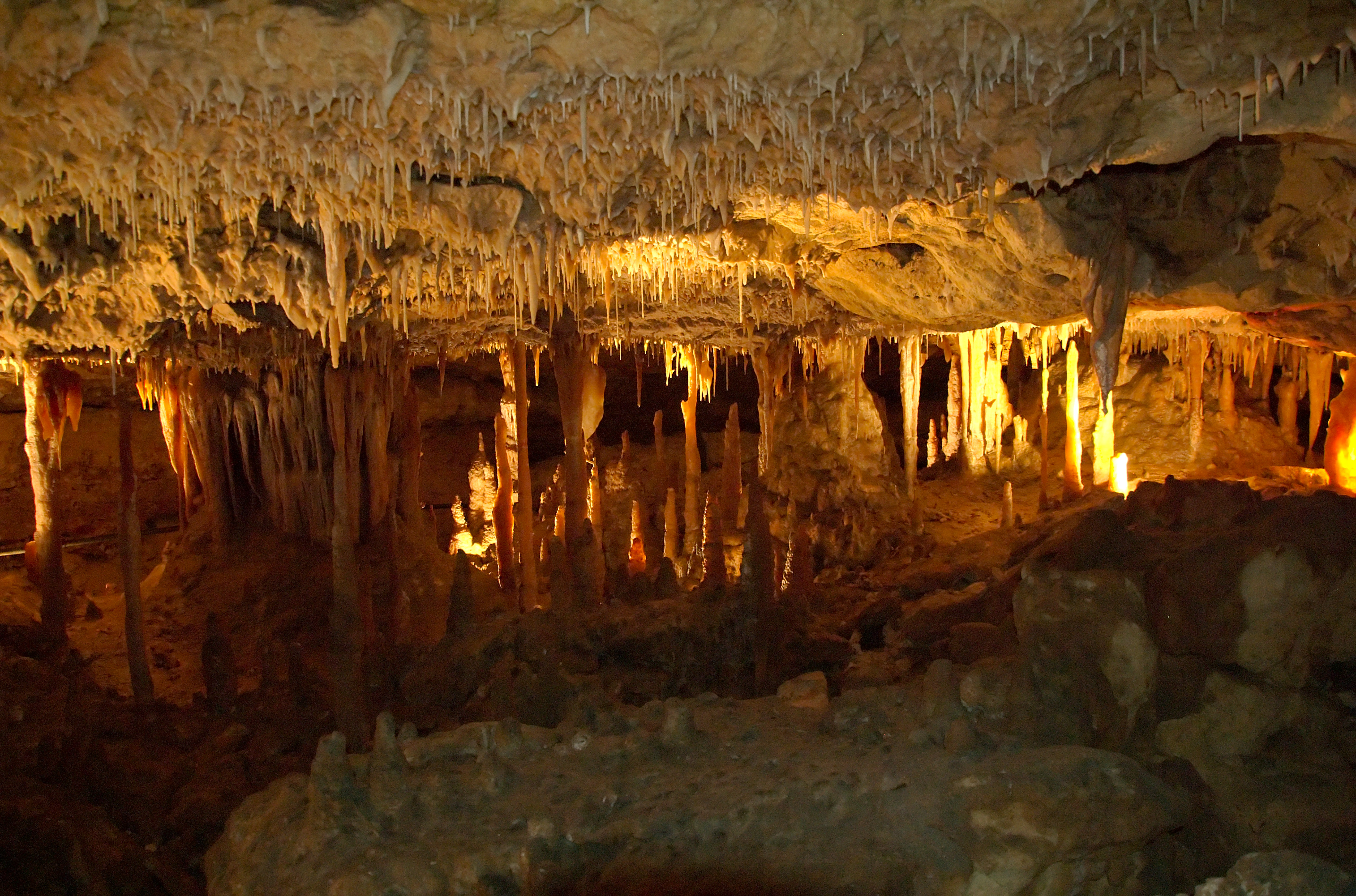 Interior of one of the caves at Naracoorte, South Australia